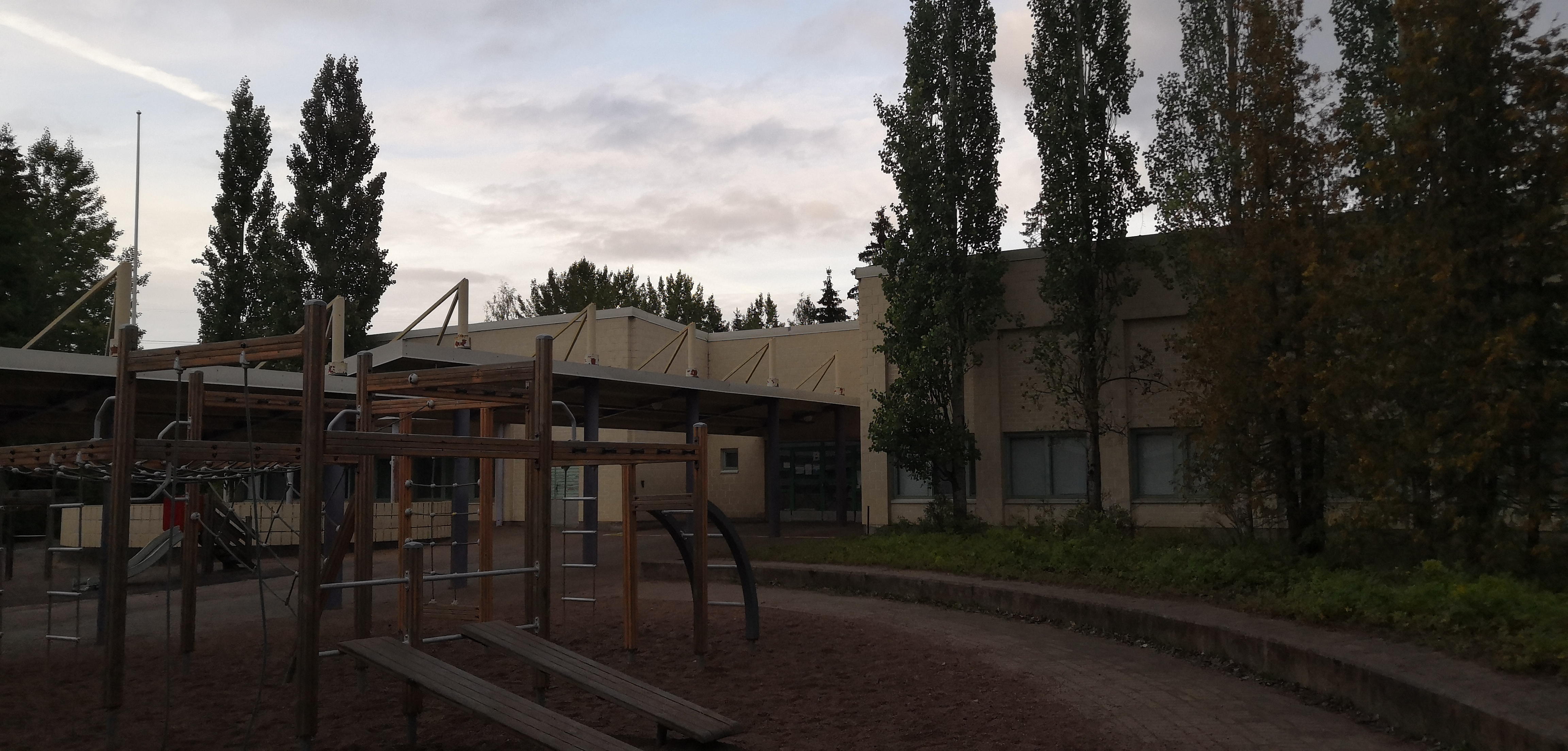 Vahteron koulun sisäpiha